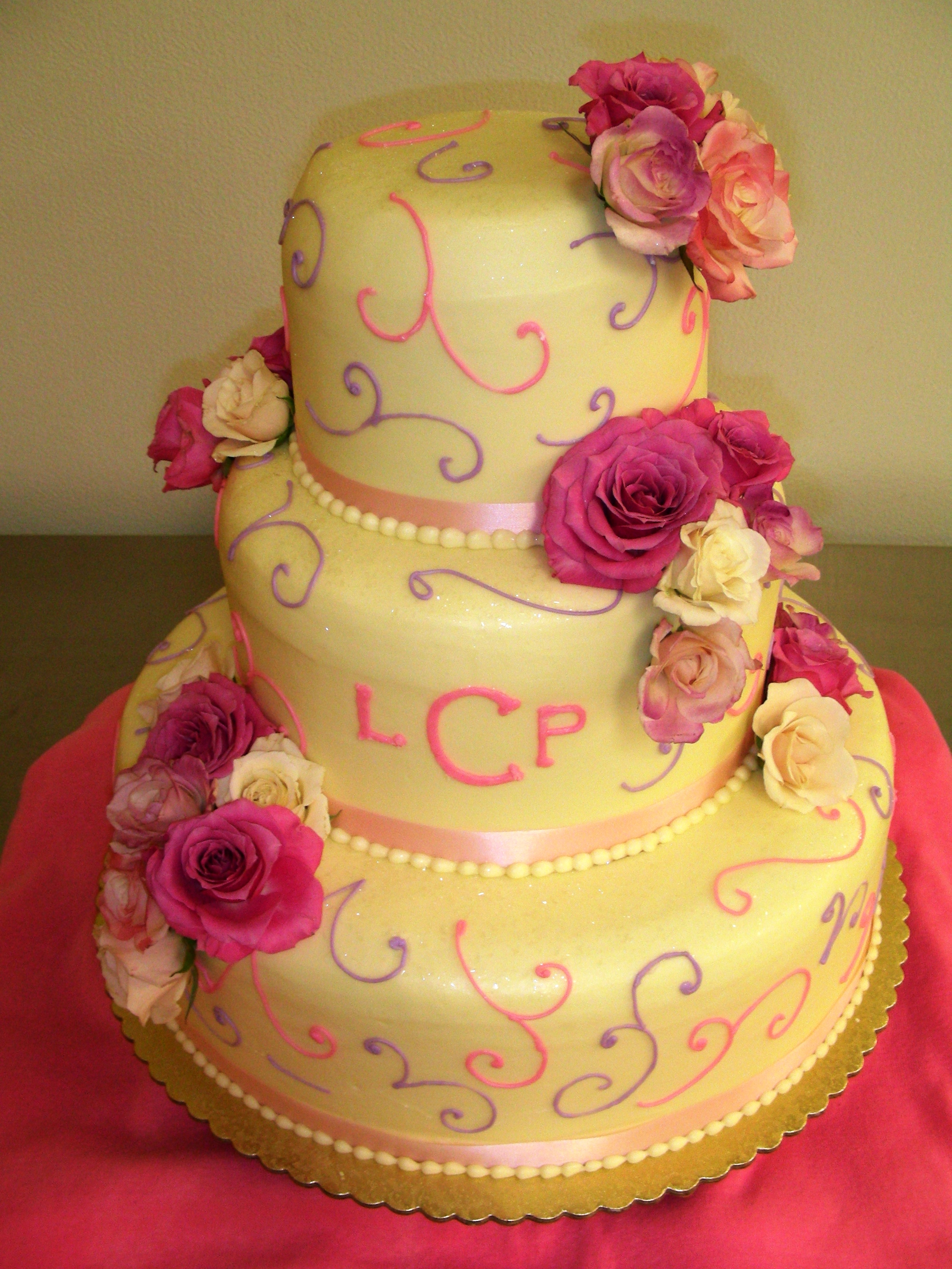 Colorful three tiered wedding cake for LCP7-23 Colorful three tiered wedding cake for LCP